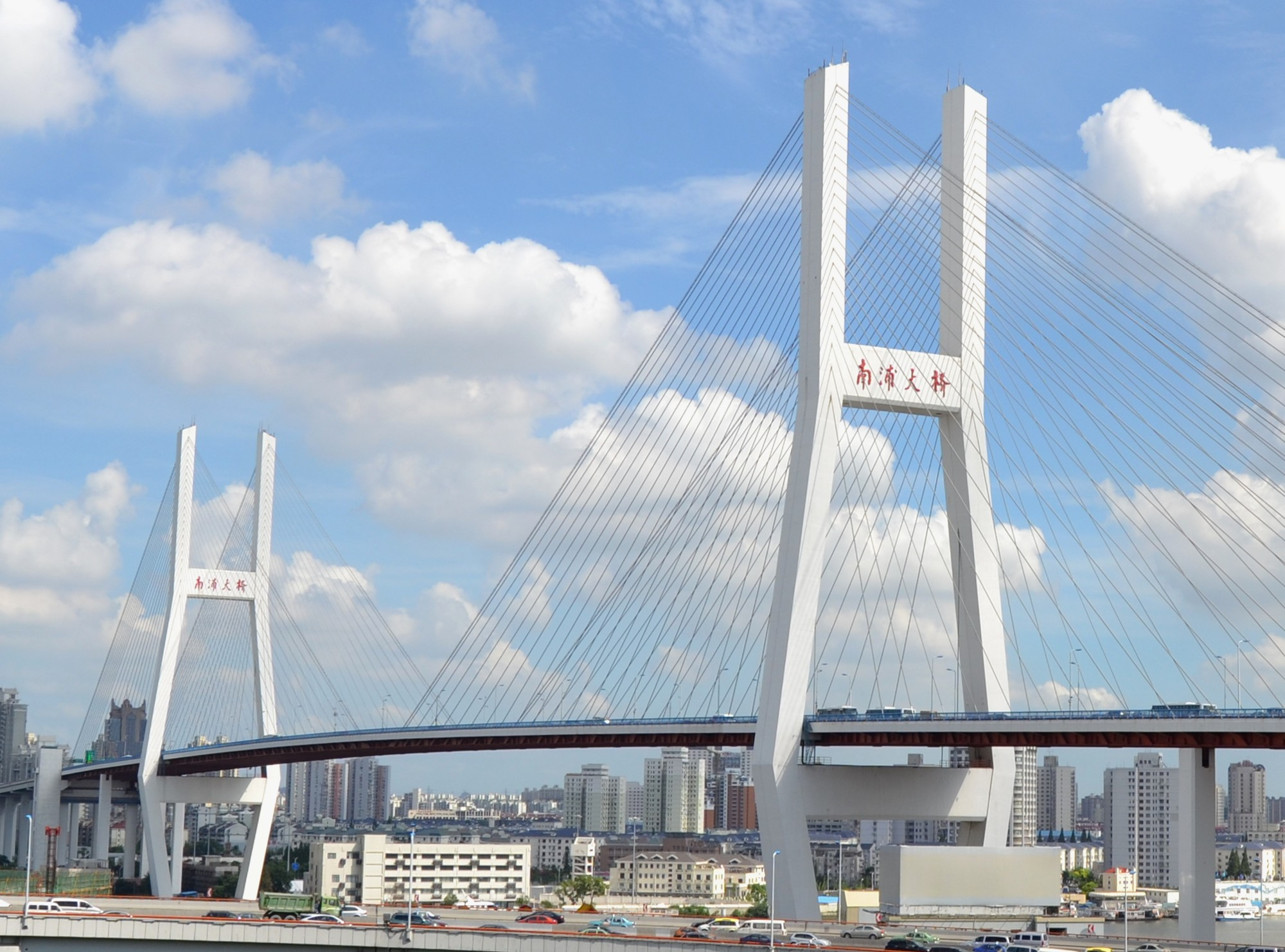 The Nanpu Bridge connects the 'old Shanghai side, Puxi, with the 'new' Shanghai side, Pudong. It is the most used bridge in Shanghai, connecting urban living areas in Puxi with big working areas in Pudong, namely Lujiazui and Zhangjiang